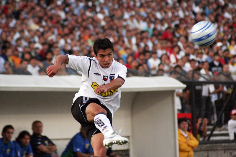 Gonzalo Fierro, in the final of the 2006 Clausura Tournment of the Chilean football league, between Colo-Colo and Audax Italiano